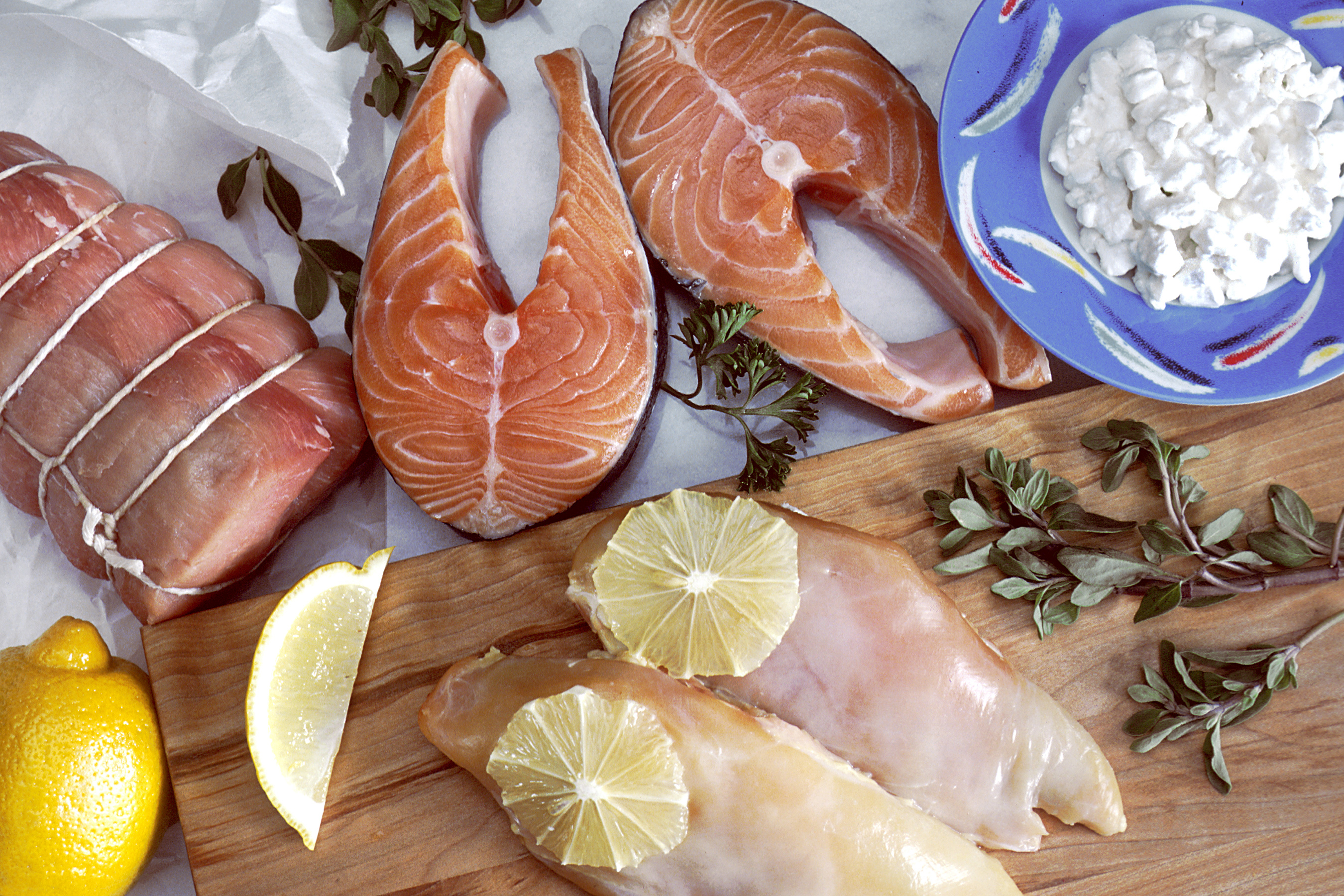 Title Protein Description There is a wooden cutting board on a white tablecloth. There are various cuts of meat and fish on both the table and the block, garnished with sliced lemons, watercress and parsley. A blue bowl in the background is full of cottage cheese. Topics/Categories Food and Drink Type Color, Photo Source National Cancer Institute